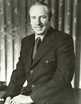 Thomas F. Railsback, US Congressman from Illinois 1967-1983.